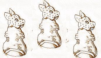 Toponymy of Tuxtepec